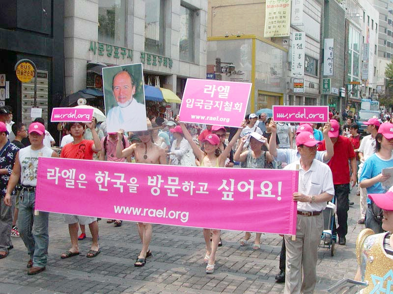 Image Specific: 5 Aug 2006 Insa-dong Seoul Korea "Rael wants to visit Korea!"